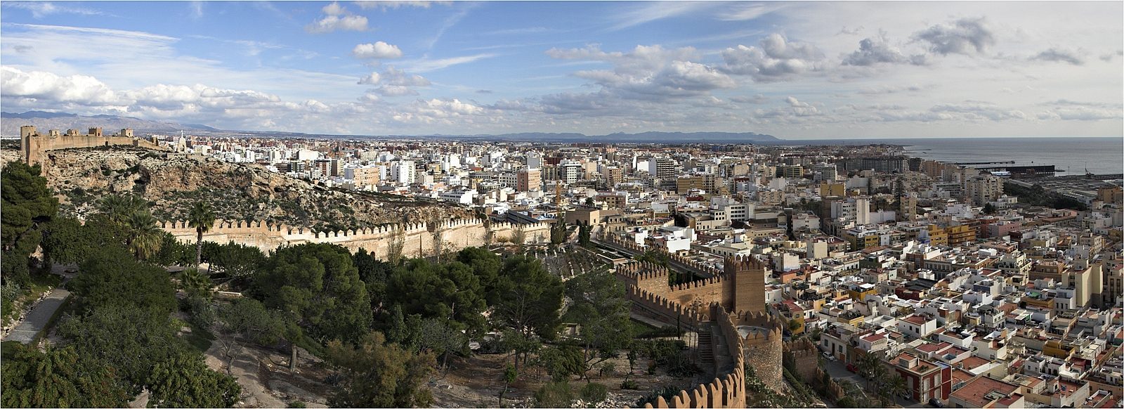 Almería - the capital of the province of Almería, Spain.